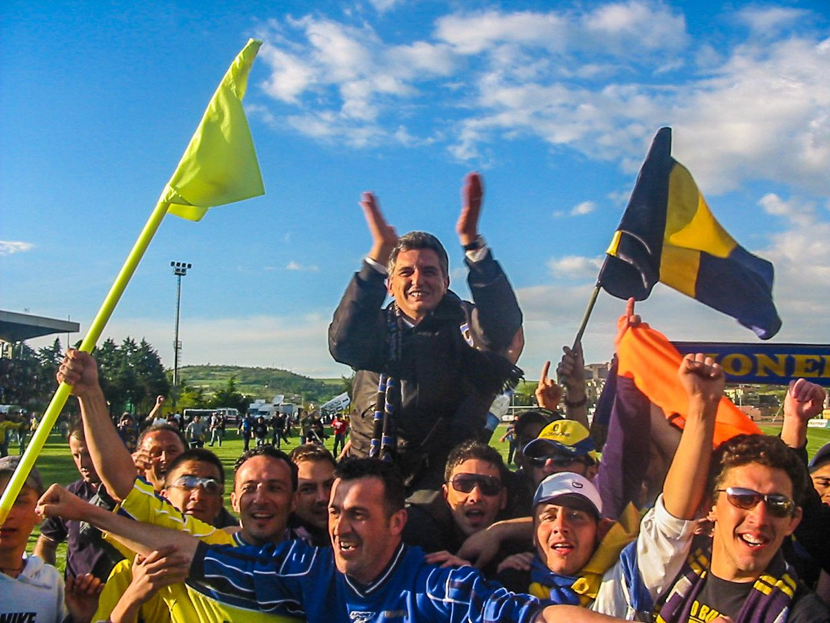 Frosinone supporters carried President Maurizio Stirpe shoulder-hig after getting promoted to Serie C1 (19/5/2004)